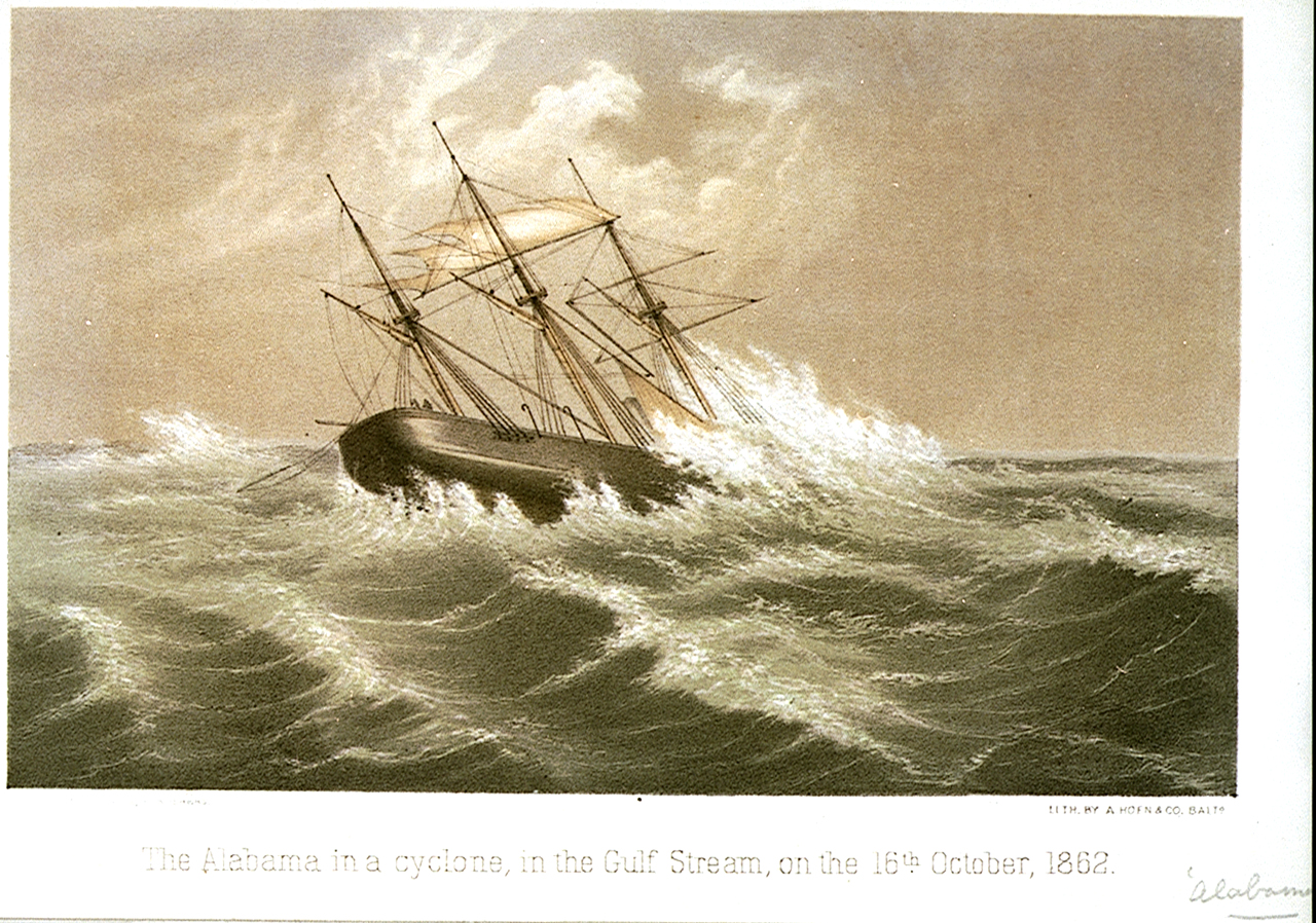 The Alabama in a cyclone in the Gulf Stream on the 16th. October 1862 Print